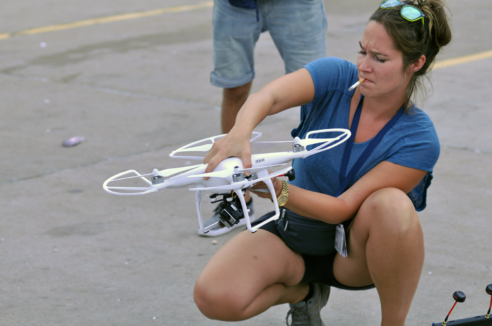 Fixing it.